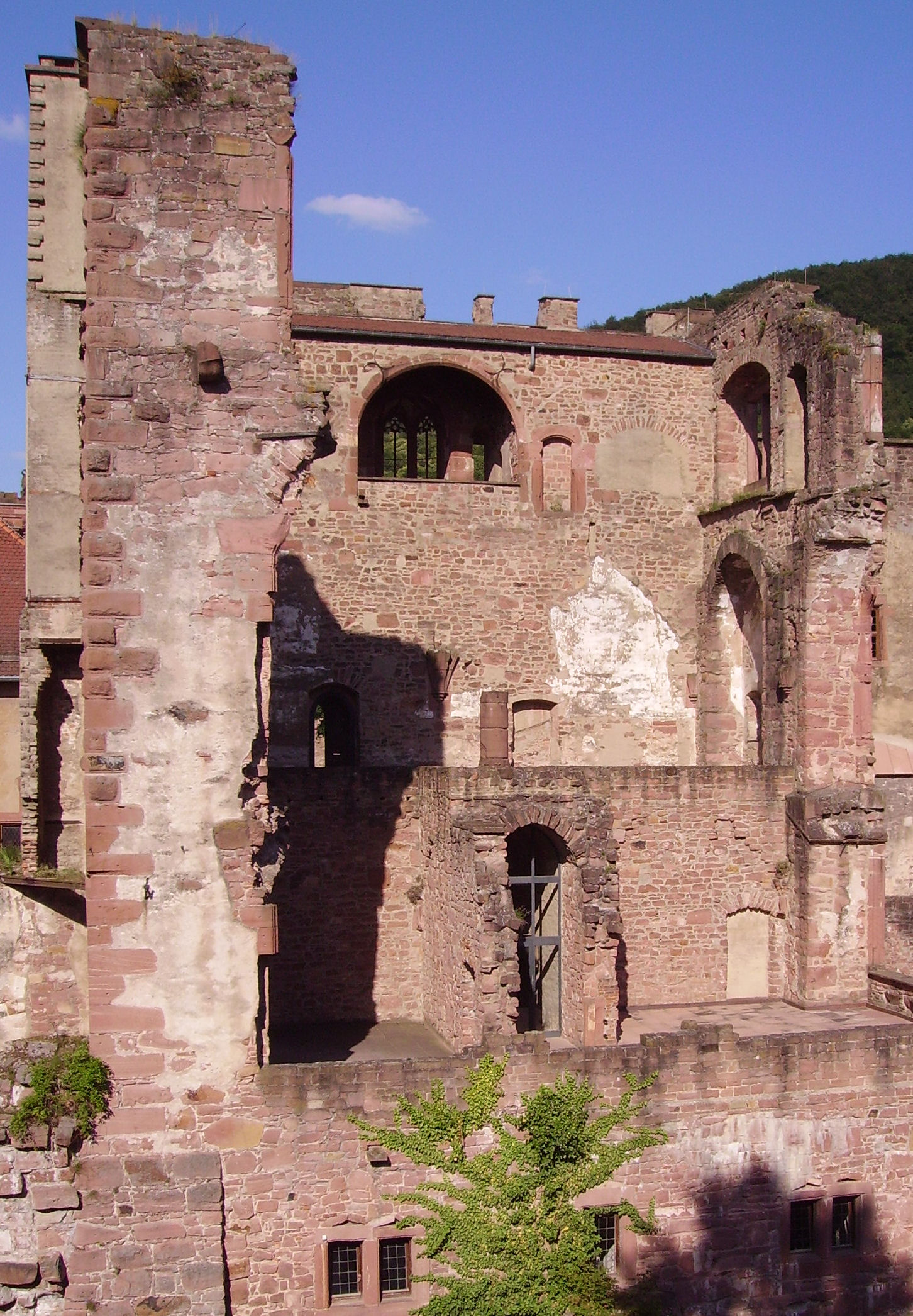 part of Heidelberg castle (Heidelberger Schloss)